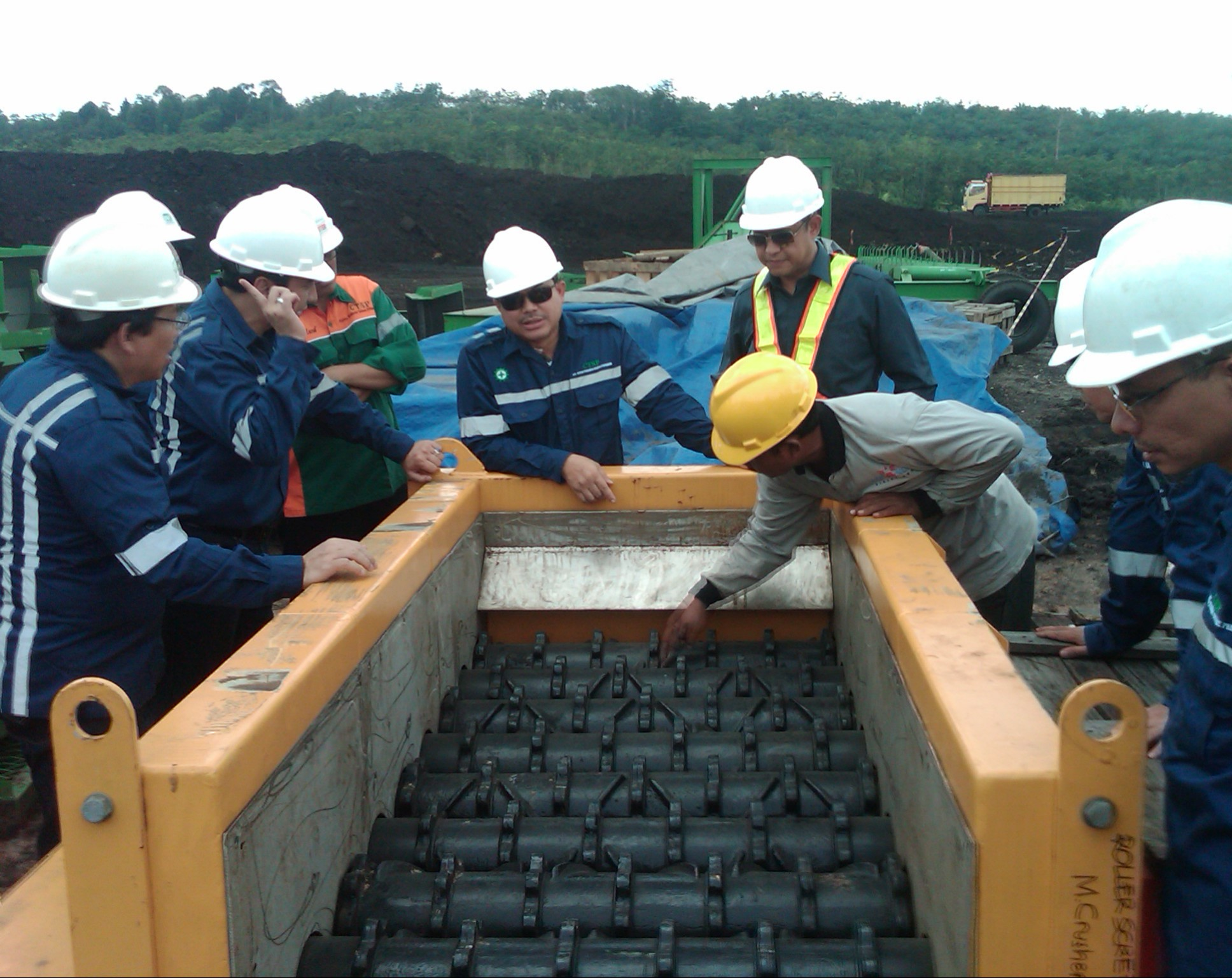 @jambi- surolangun